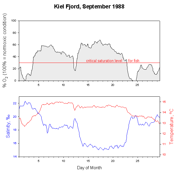 An illustration of oxygen depletion in the Kiel fjord in September 1988. Based on a GIF (Image:Oxygendepletion2.gif) by Uwe Kils. The original image was on ifc , this is my attempt at cleaning it up. Data was extracted from the image using Perl. Mysid (talk) 11:52, 17 October 2005 (UTC)